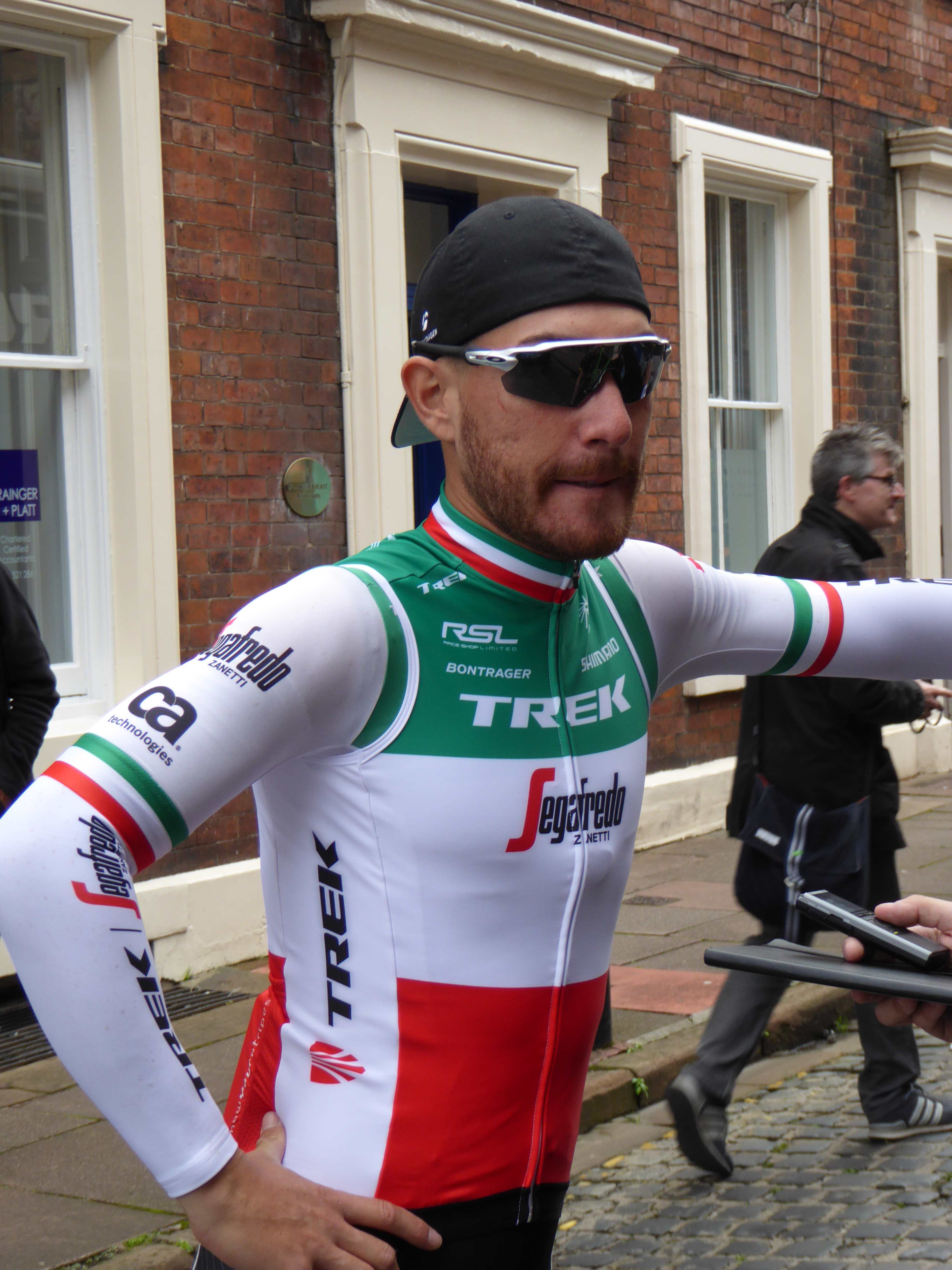 Giacomo Nizzolo (Trek-Segafredo), pictured in the Italian national champion's jersey, before Stage 2 of the 2016 Tour of Britain in Carlisle on 5 September 2016.